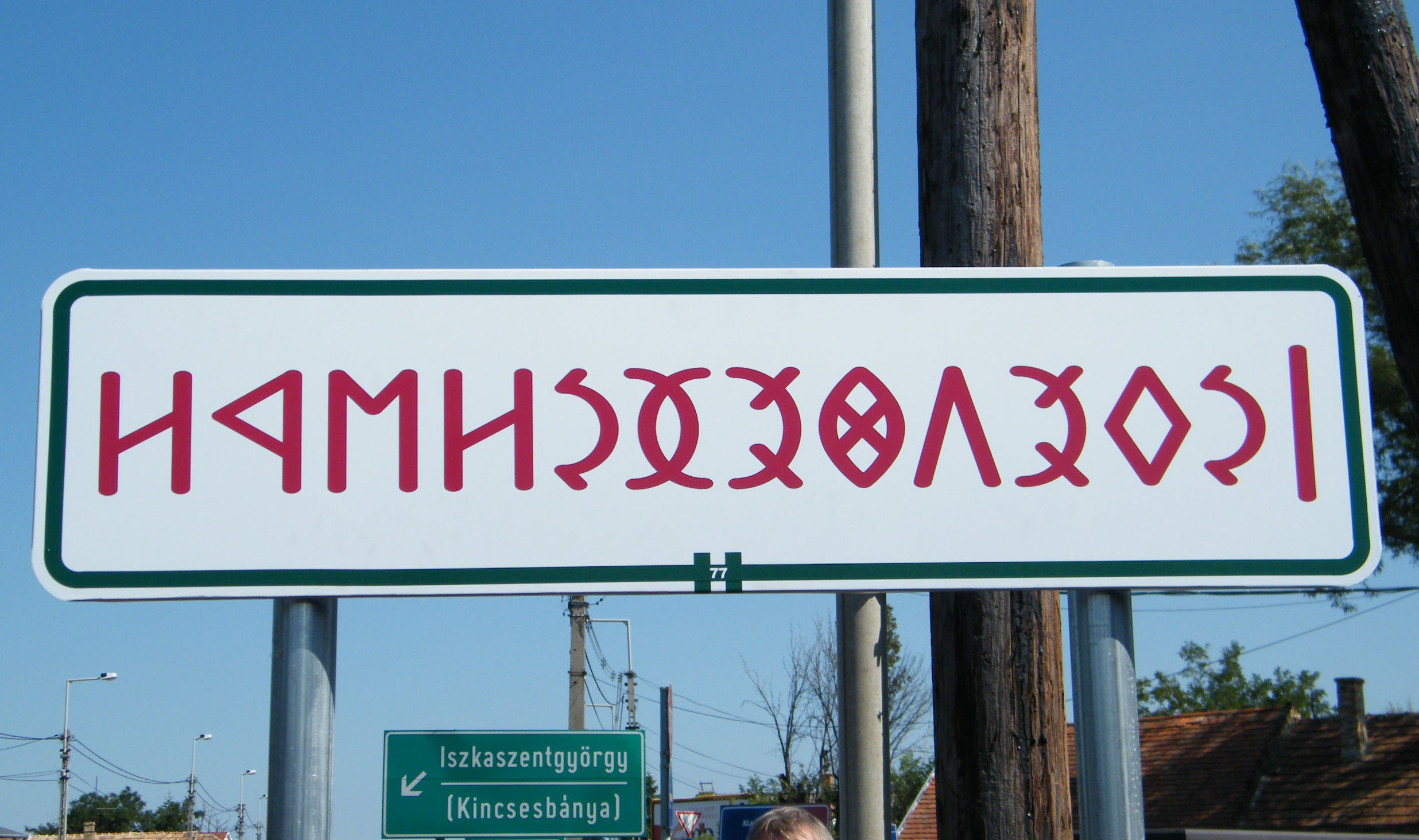 City limit table in Székesfehérvár, Hungary. Traditional Hungarian letters (rovas)